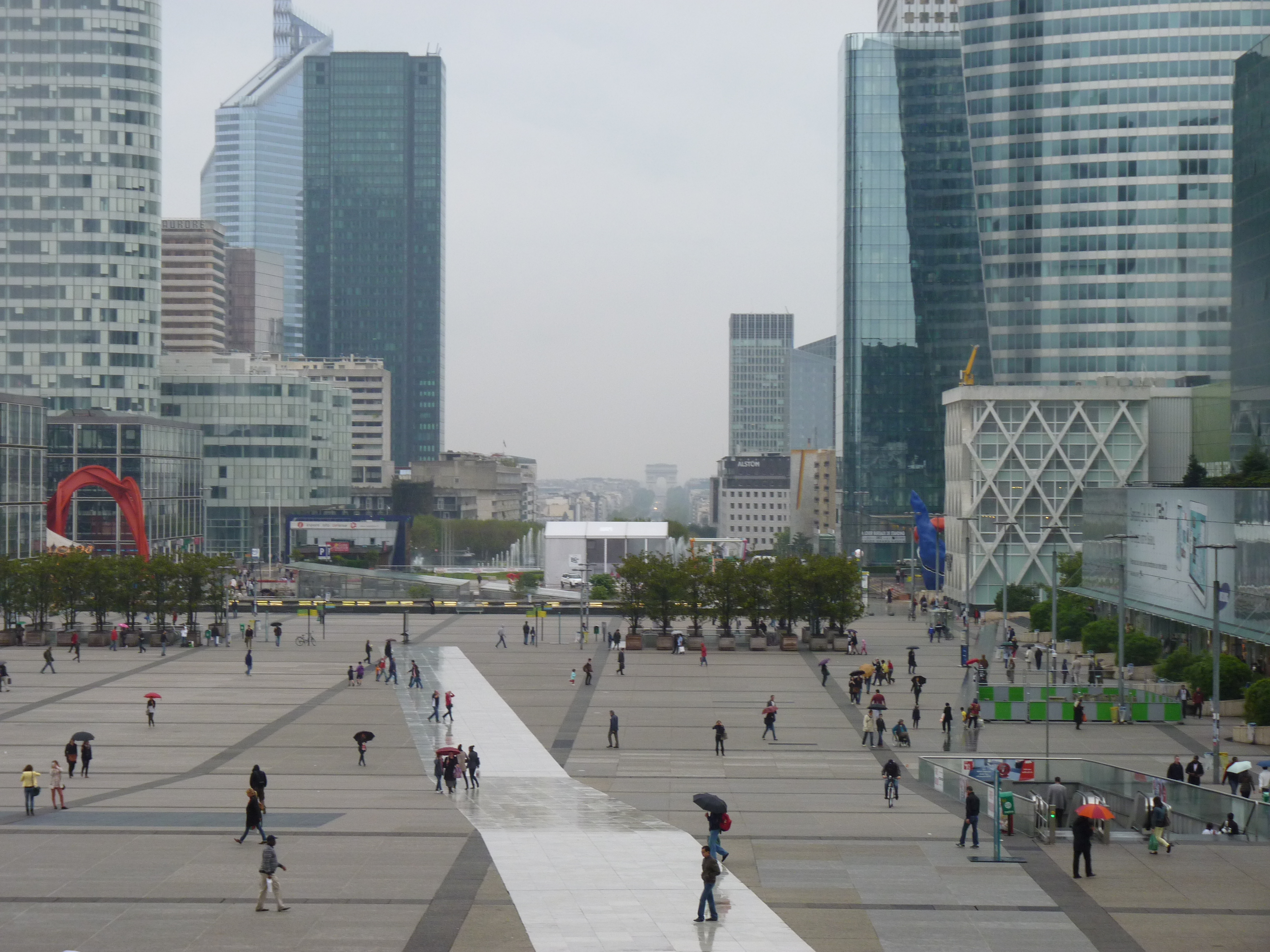 Deffans in Paris